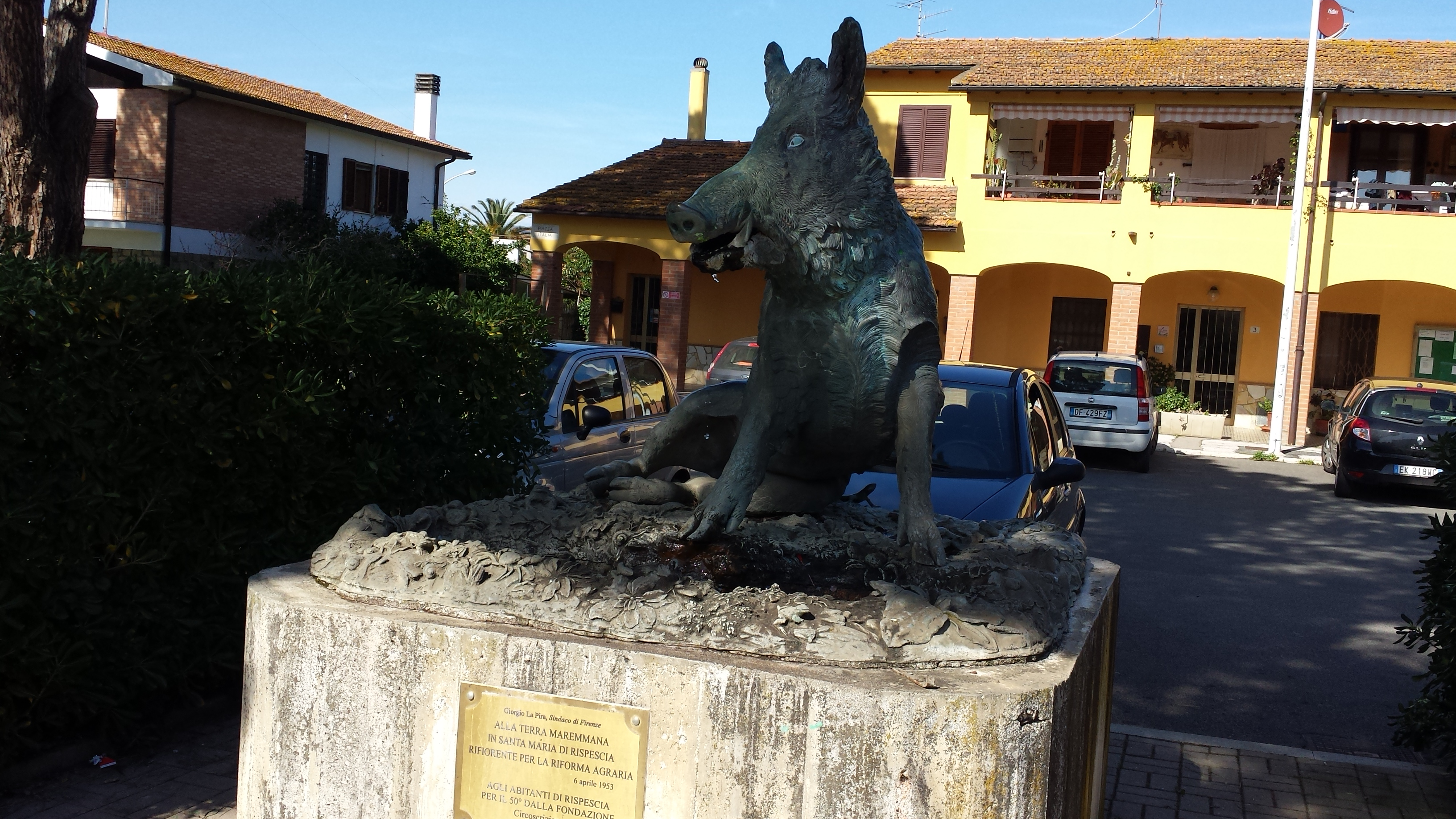 The Little Boar (Cinghialino) in Rispescia, Grosseto